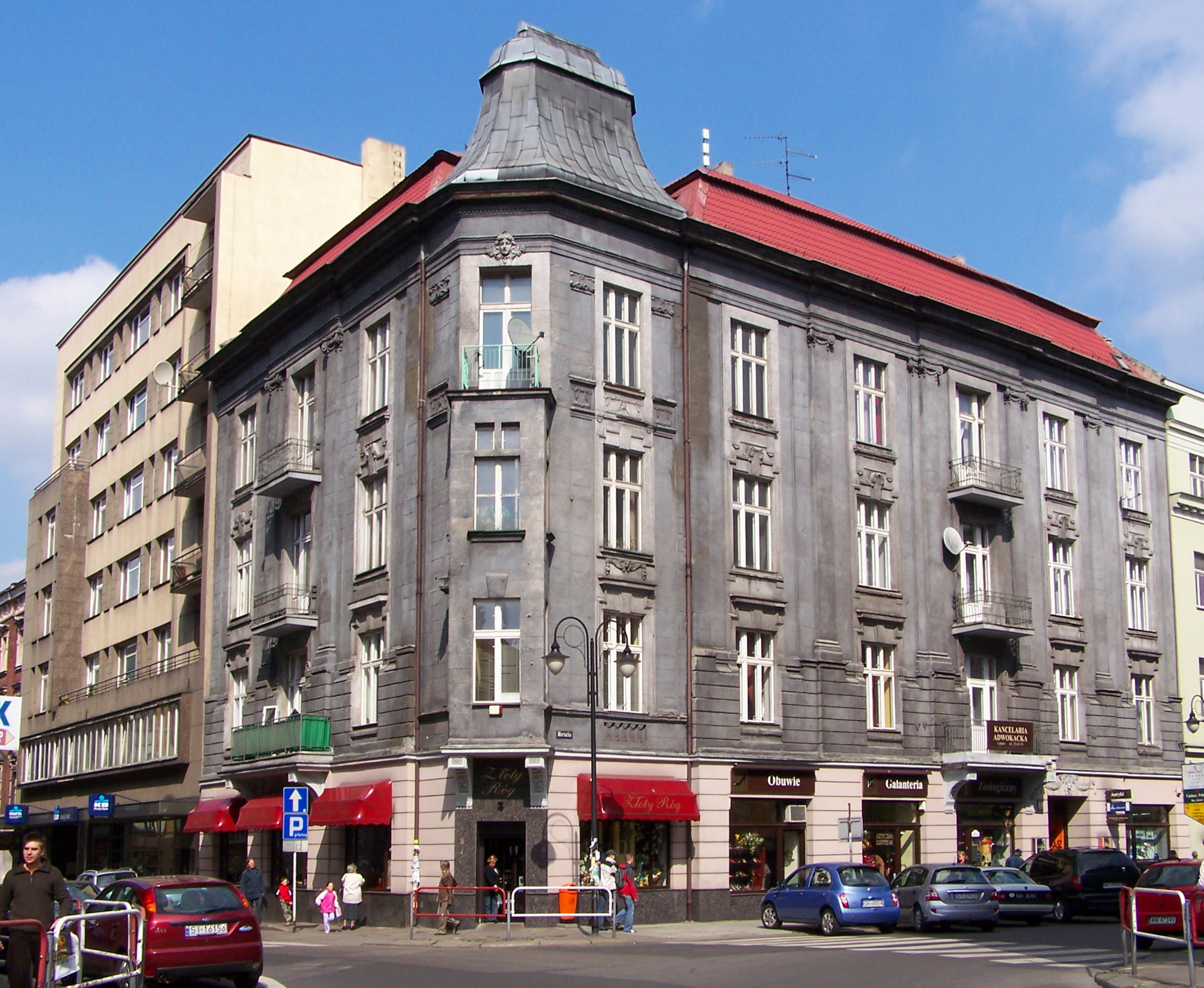 Mariacka Street in Katowice.